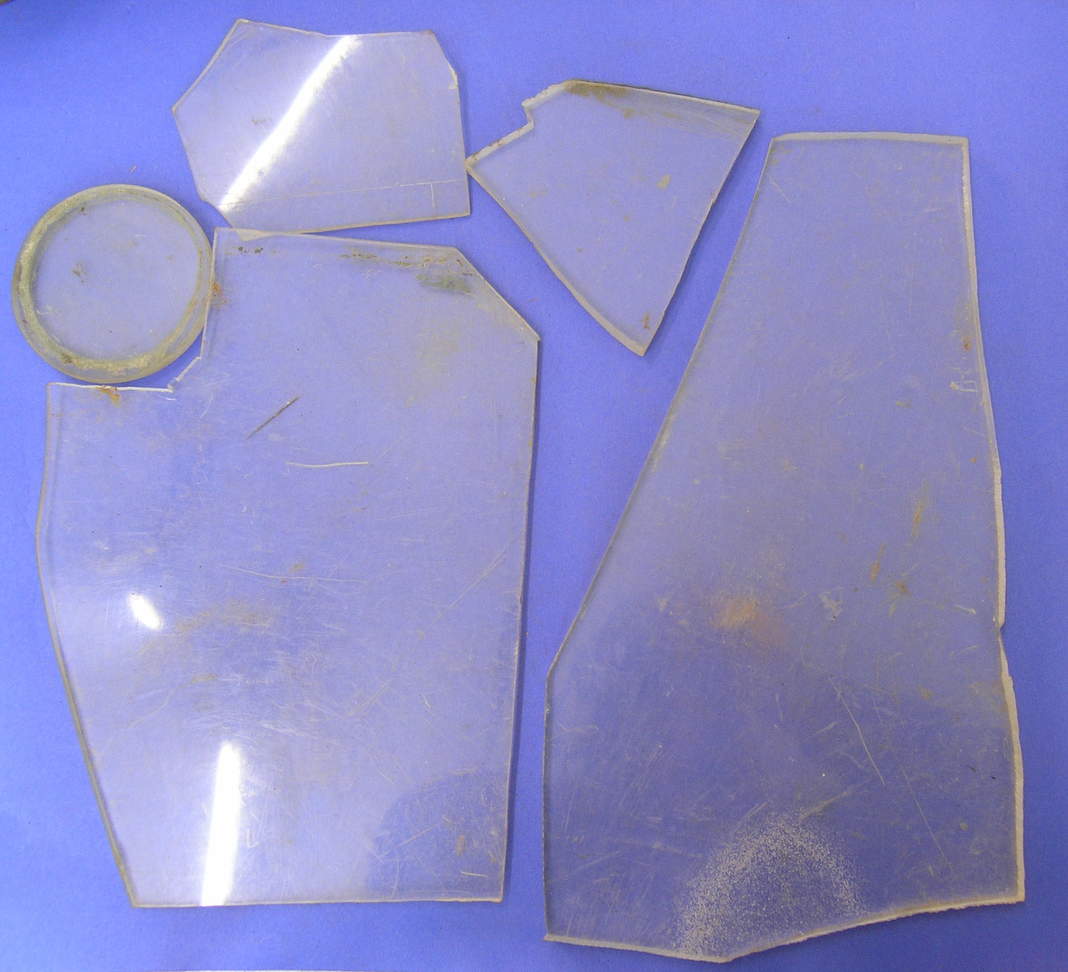 Pieces of perspex from German plane which had been shot down,and subsequently acquired by 423170 Pte Ralph Turner, 21st Infantry Battalion, 2NZEF, for making souvenirs. These formed part of his trench kit, (see 2007.10.1).